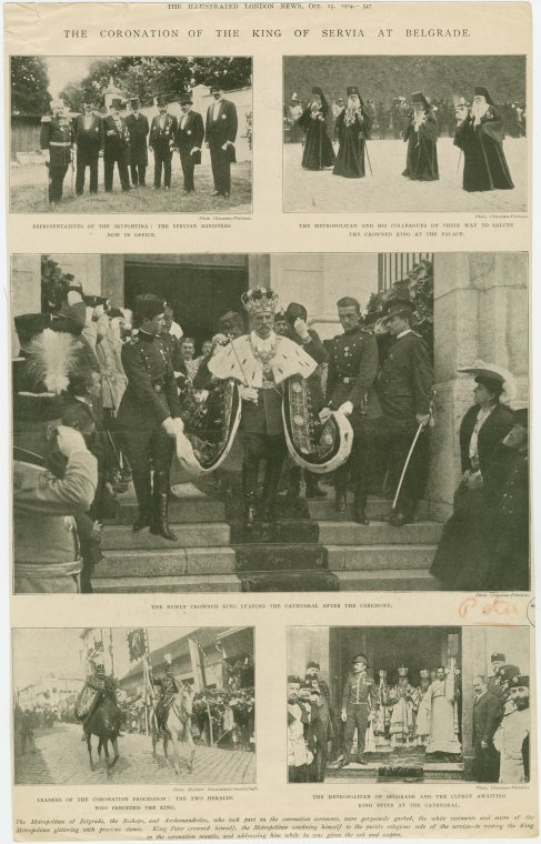 Print Collection portrait file. / P / Peter I of Serbs, Croats and Slovenes. / Coronation.